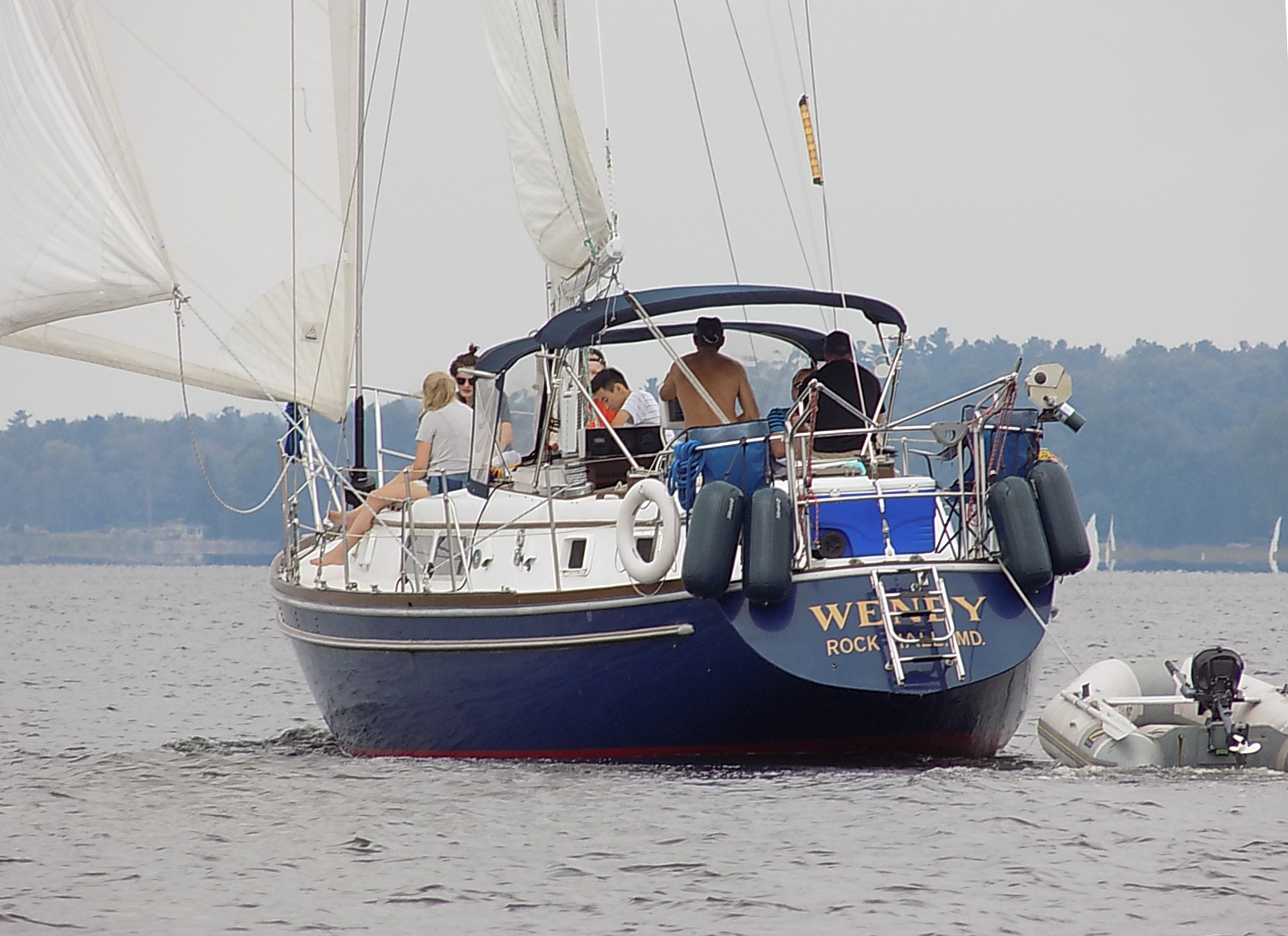 A Gulfstar 43 Mark II sailboat named Wendy.